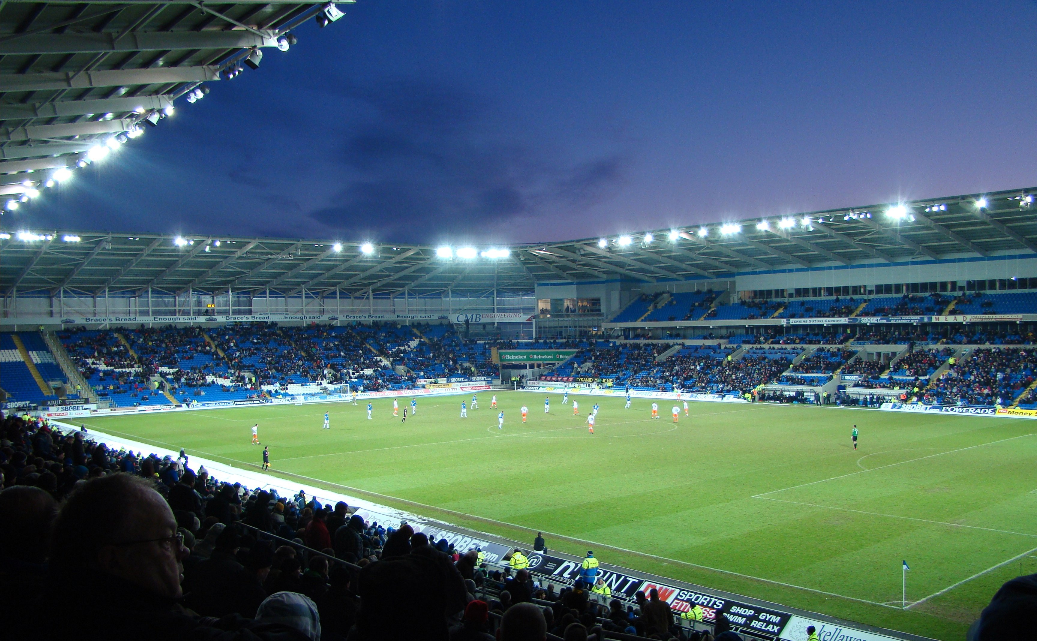 09/01/10 Cardiff V Blackpool, Cardiff City Stadium, Cardiff, Wales